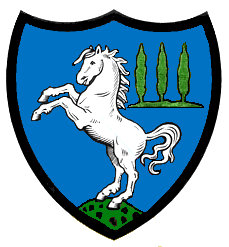 Coat of arms of Kochendorf in Bad Friedrichshall